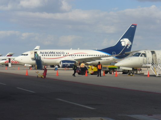 AEROMEXICO AT LA PAZ INTERNATIONAL AIRPORT